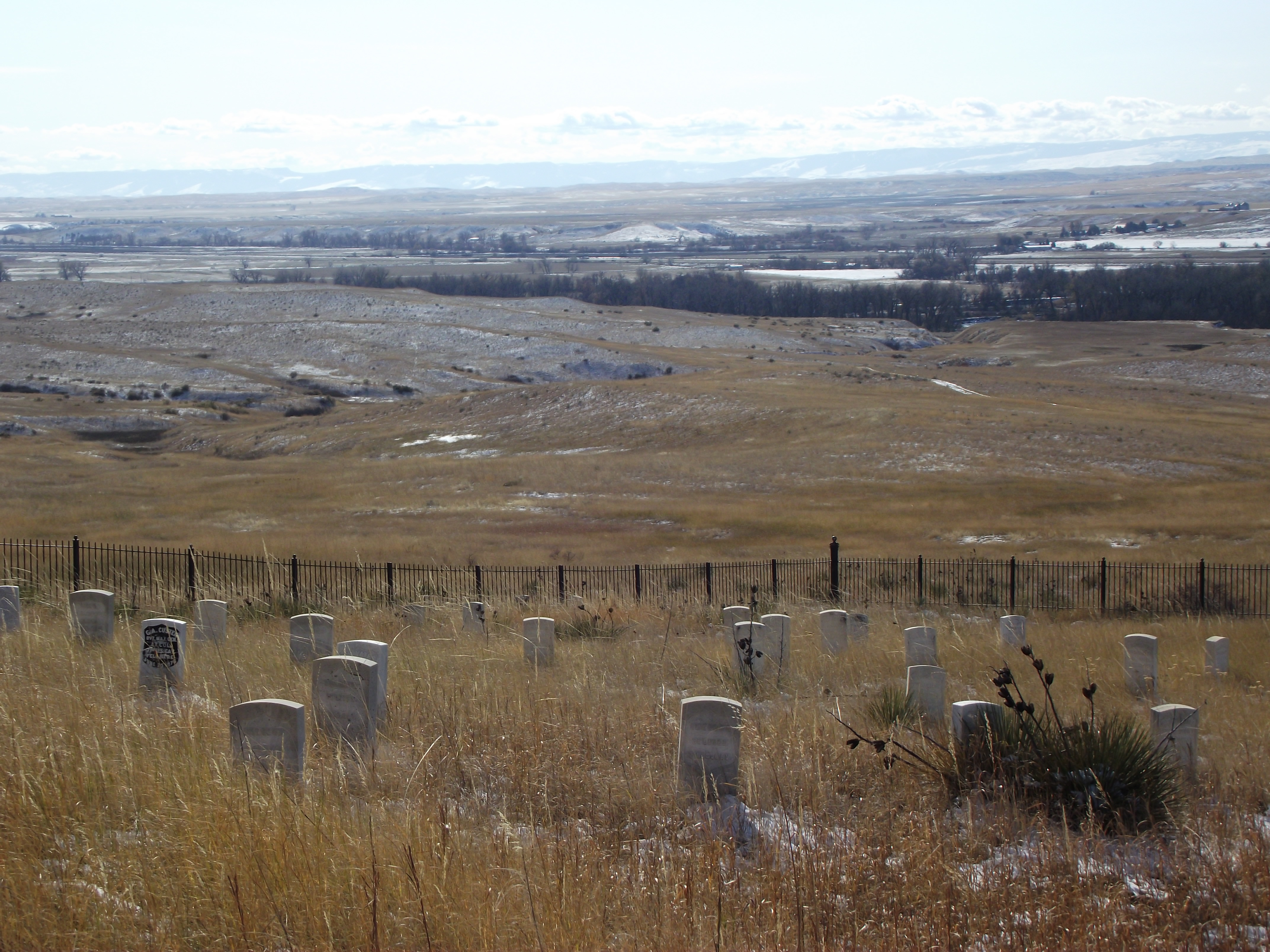 View of Lt. Col. George Armstrong Custer and the remnants of his command and the markers indicating their position when found by General Terry on Last Stand Hill. Position is overlooking Indian encampment site and Little Bighorn River. In the distance the Bighorn Mountains. Photo taken November 2011.